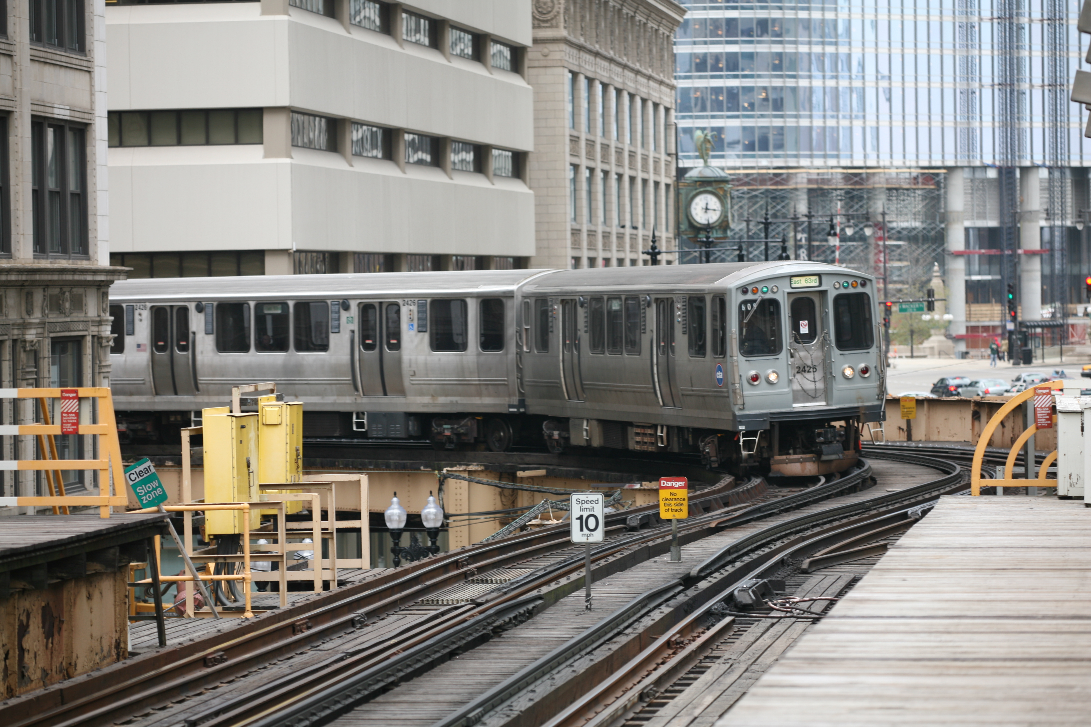 Chicago elevated train in the northeast corner of the Loop. This is a green line train approaching the Randolph/Wabash station.